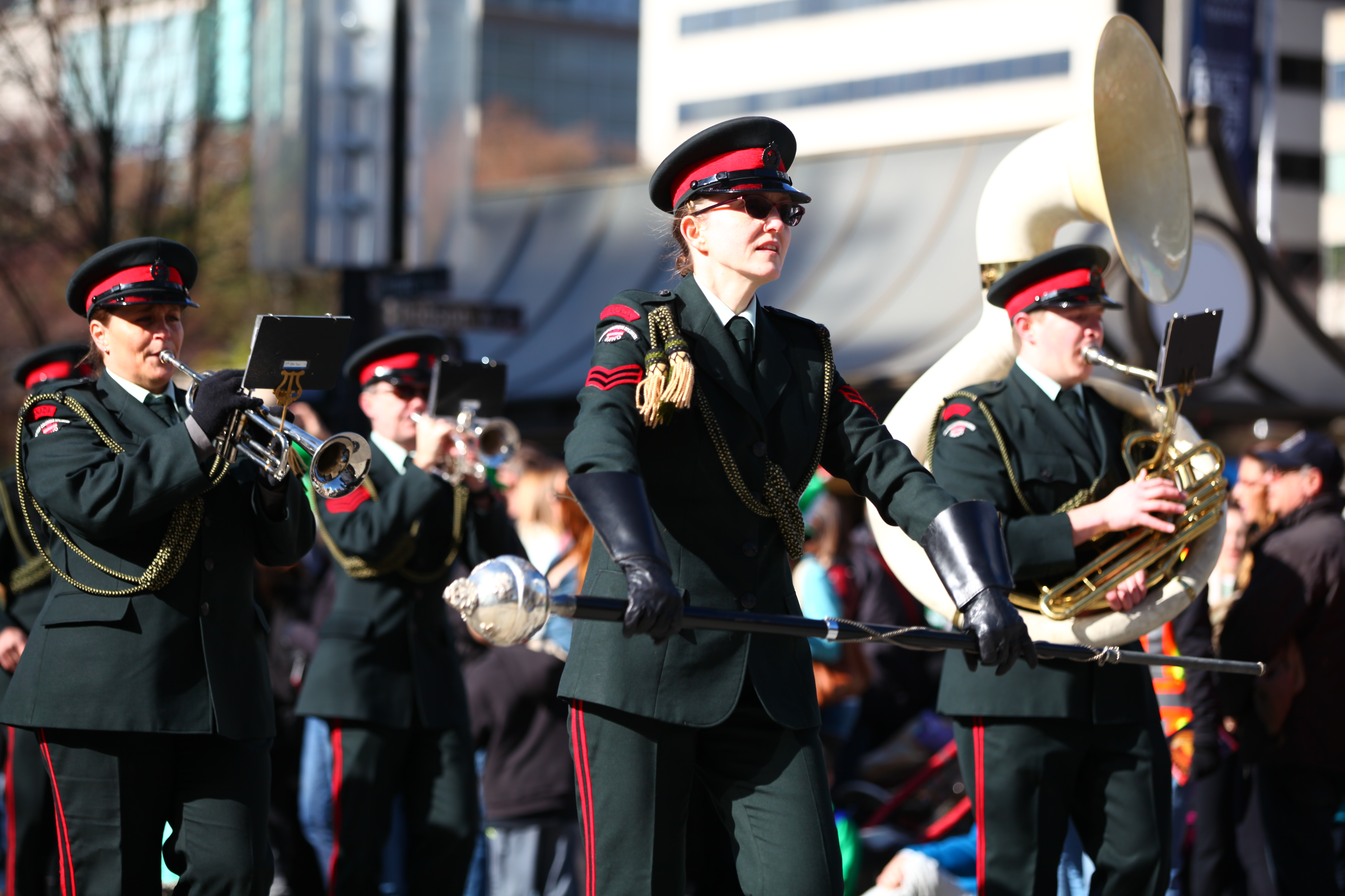 St Patrick's Day Parade St. Patrick's Festival